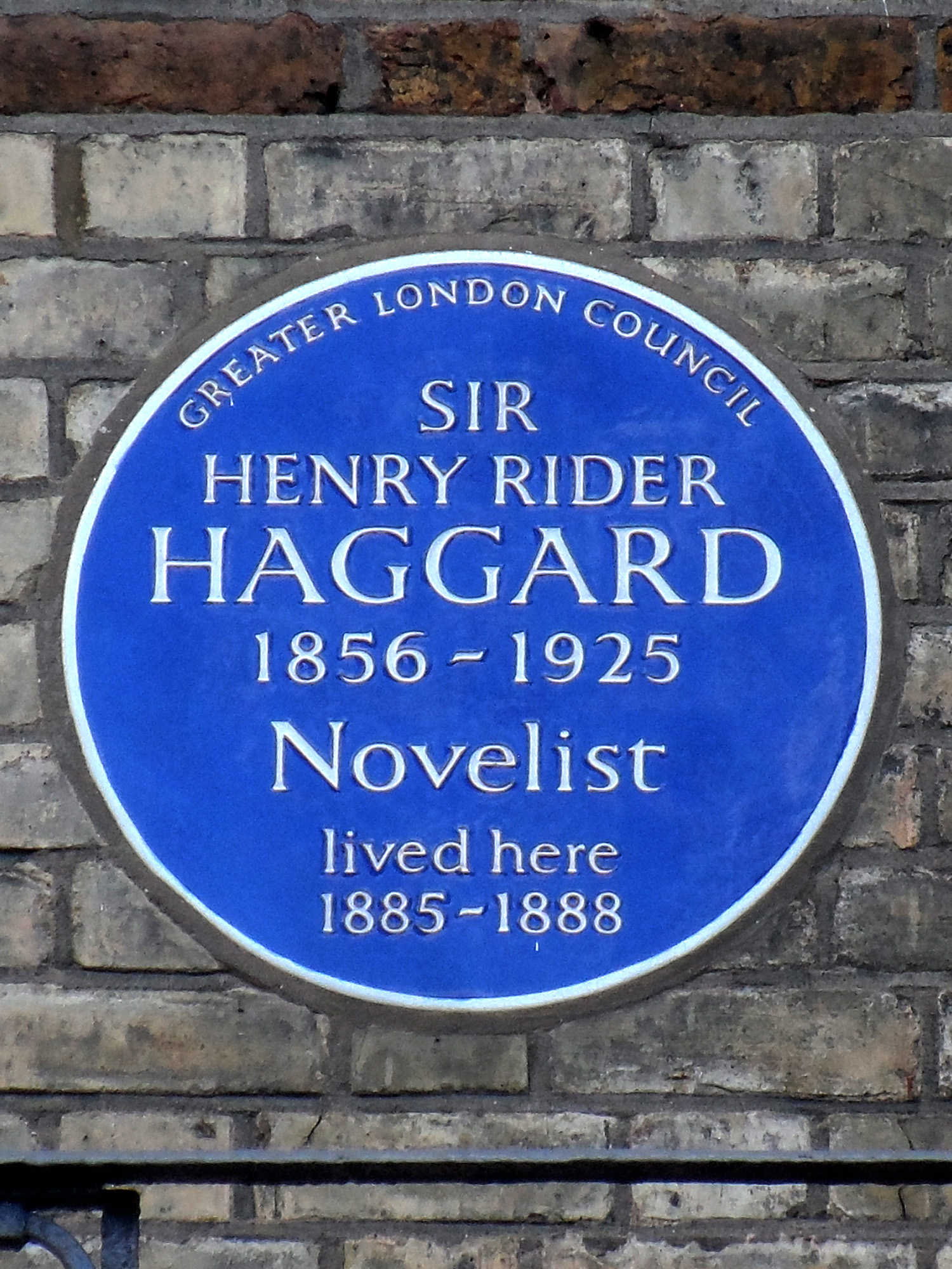 Blue plaque erected in 1977 by Greater London Council at 69 Gunterstone Road, West Kensington, London W14 9BS, London Borough of Hammersmith and Fulham